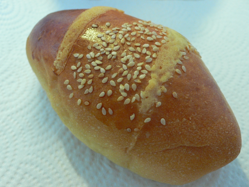 a Cocktail Bun, a kind of common bun in Hong Kong